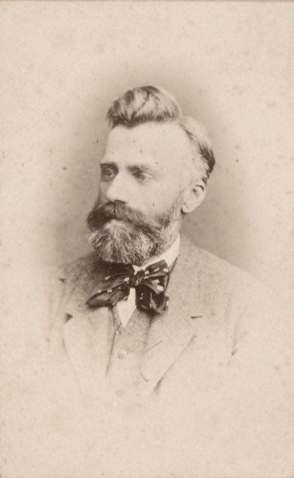 Plate 09 Photograph album of German and Austrian scientists. Stephan Milow, Graz.